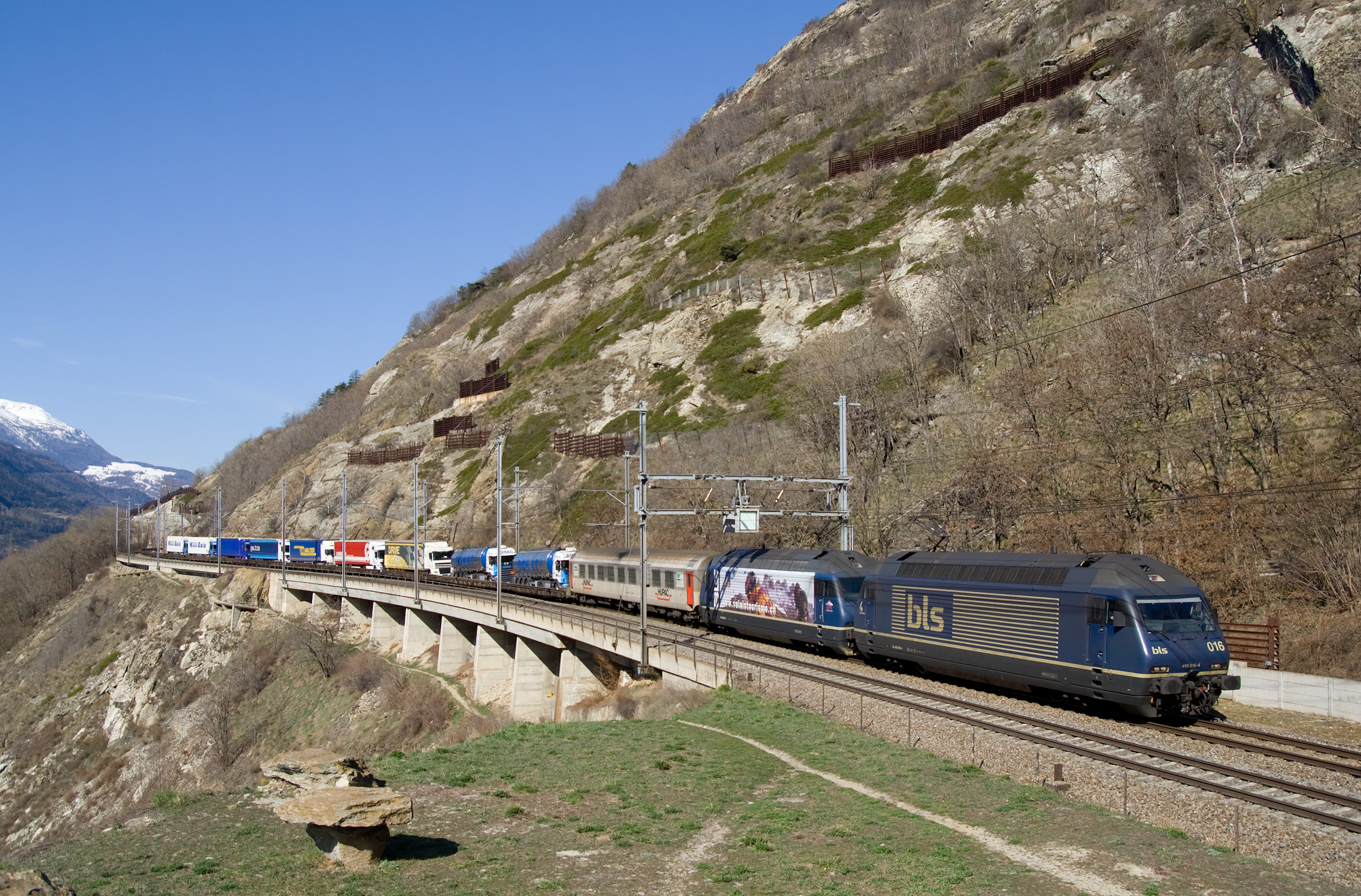 Rolling Highway on the southern Lötschberg ramp near Lalden, pulled by two BLS Re 465.